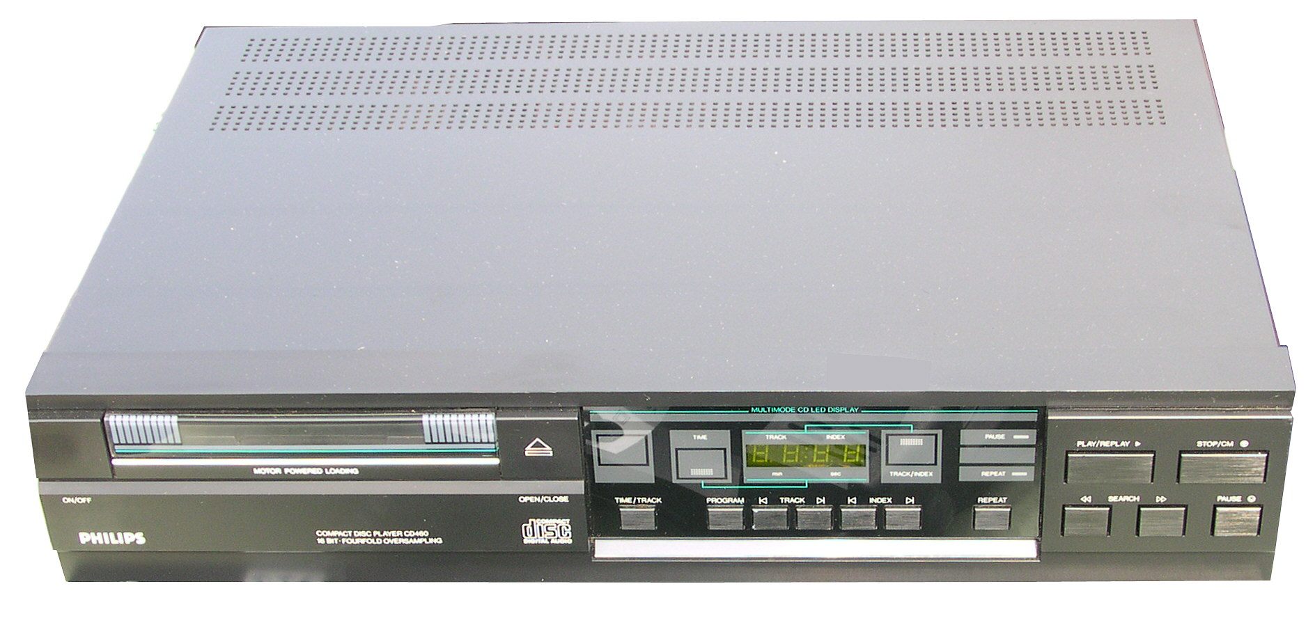 Philips CD460 CD-player